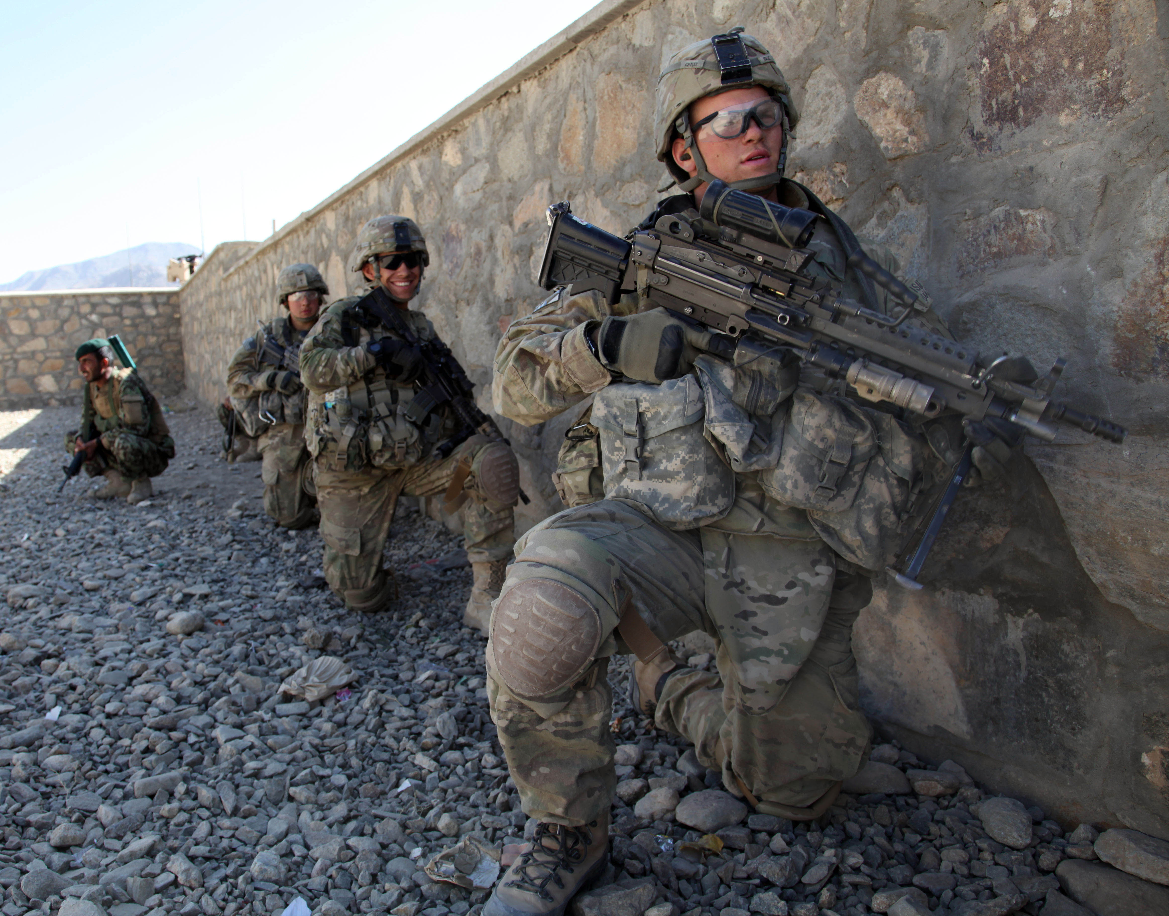 U.S. Army soldiers with Charlie Troop, 3rd Squadron, 89th Cavalry, 4th Infantry Brigade Combat Team, 10th Mountain Division wait for the order to move against enemy positions in Charkh, Logar province, Afghanistan, on Nov. 13, 2010.